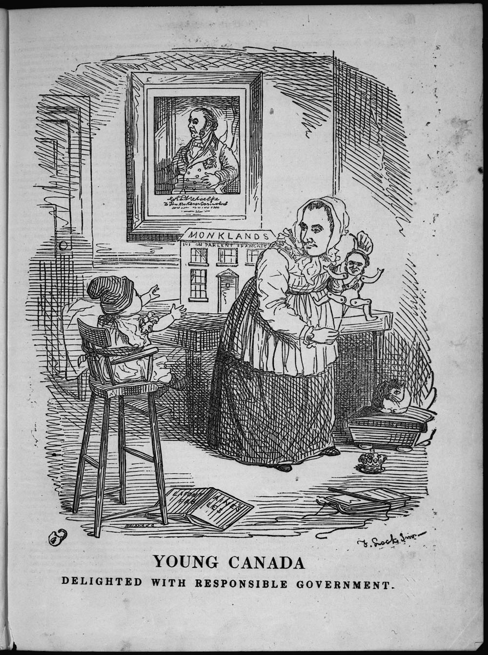 Punch in Canada published this political cartoon by [Frederick William Lock] on February 3, 1849 titled Young Canada delighted with Responsible Government depicting an infant ("Young Canada") being "delighted" by its Nanny (Governor General, James Bruce, 8th Earl of Elgin) pulling strings of a puppet representing "Responsible Government